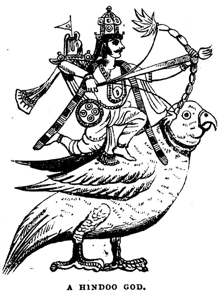 A Hindoo God (November 1853, X, p.127)